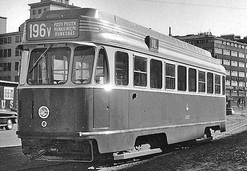 Valmet/Tampella/Strömberg RM1 tram no 337 in Helsinki